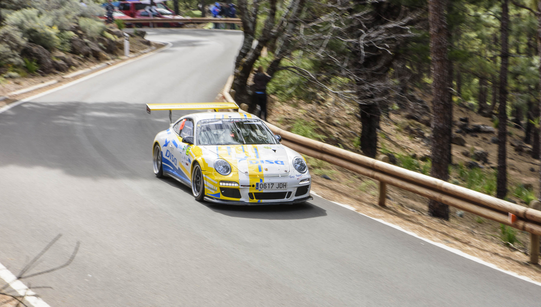 500px provided description: Rally El Corte Ingles 2016 [#Canarias ,#Rally ,#Rally el corte ingles 2016]